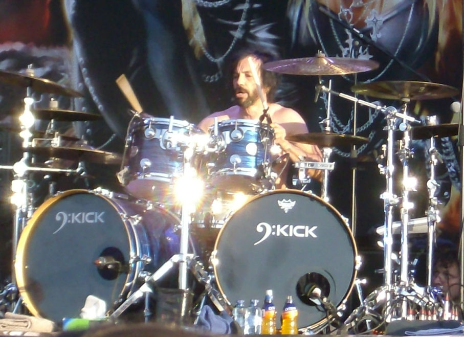 American drummer Johnny Dee at Alcatraz Festival in Krotrijk, Belgium